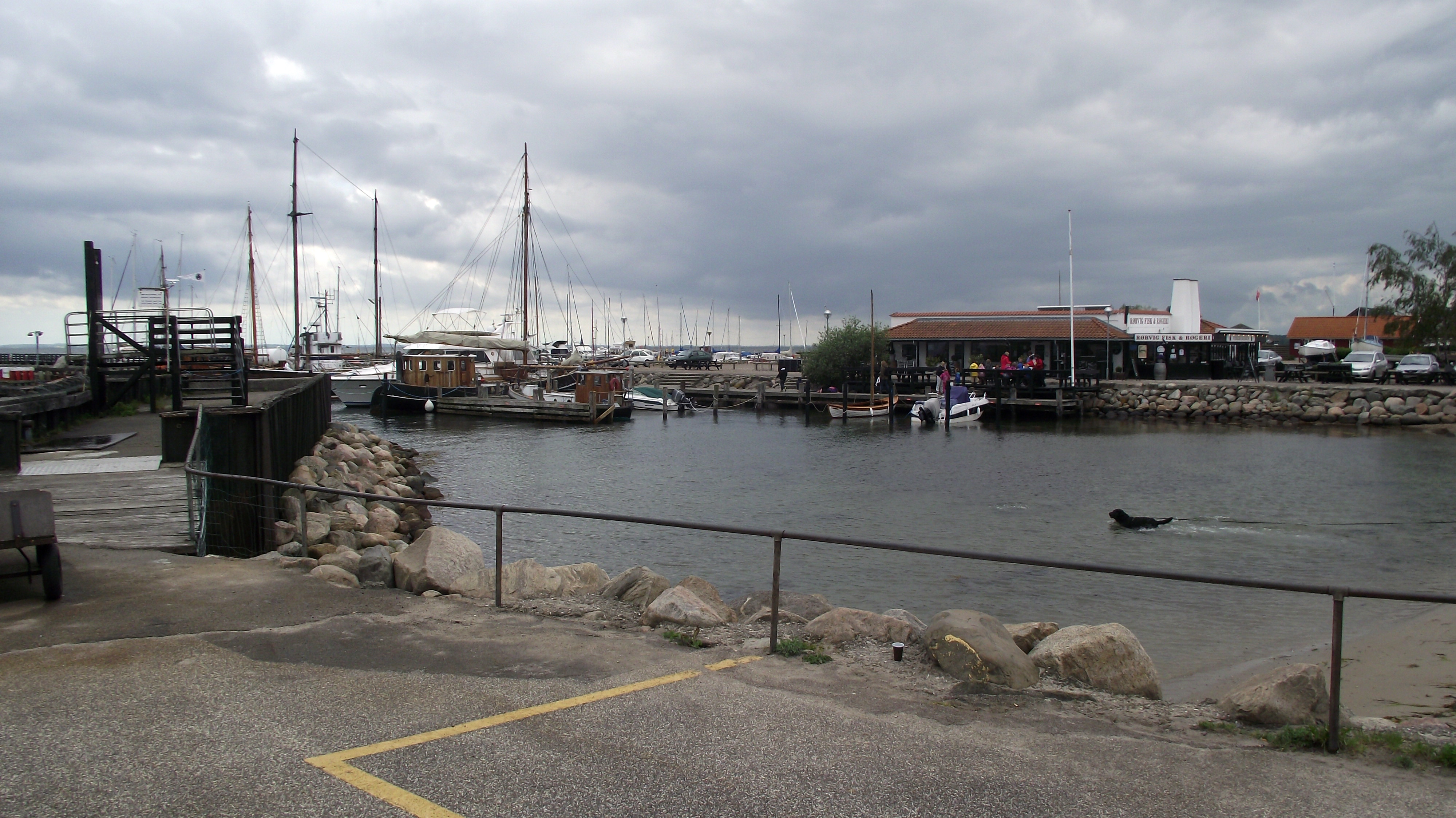 Rørvig harbour seen from the ferry jetty.